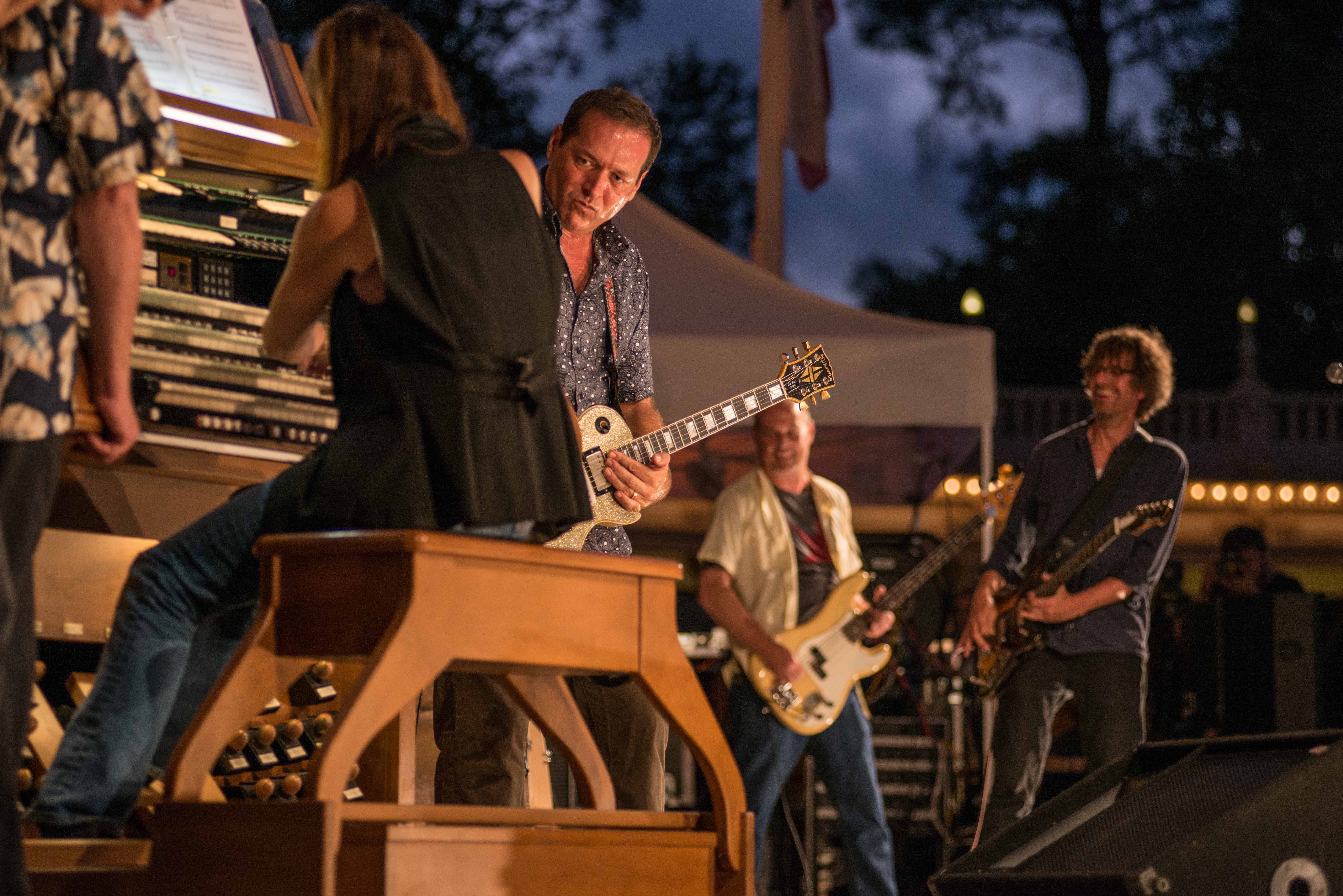 Drive Like Jehu performing with Dr. Carol Williams at the Spreckels Organ Pavilion, August 2014, San Diego, California